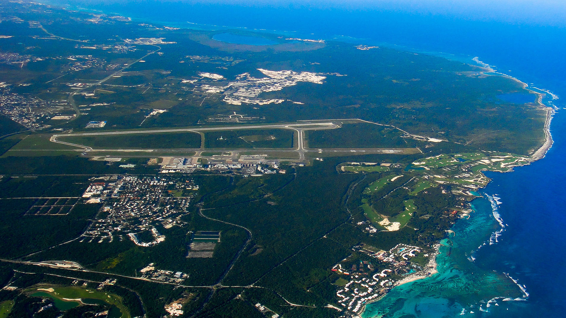 Aerial photo of the Punta Cana Airport (MDPC/PUJ) in the Dominican Republic looking north. There are two East-West runways which are nearly parallel (8-26 and 9-27). Passenger terminal and highway access is in the foreground.